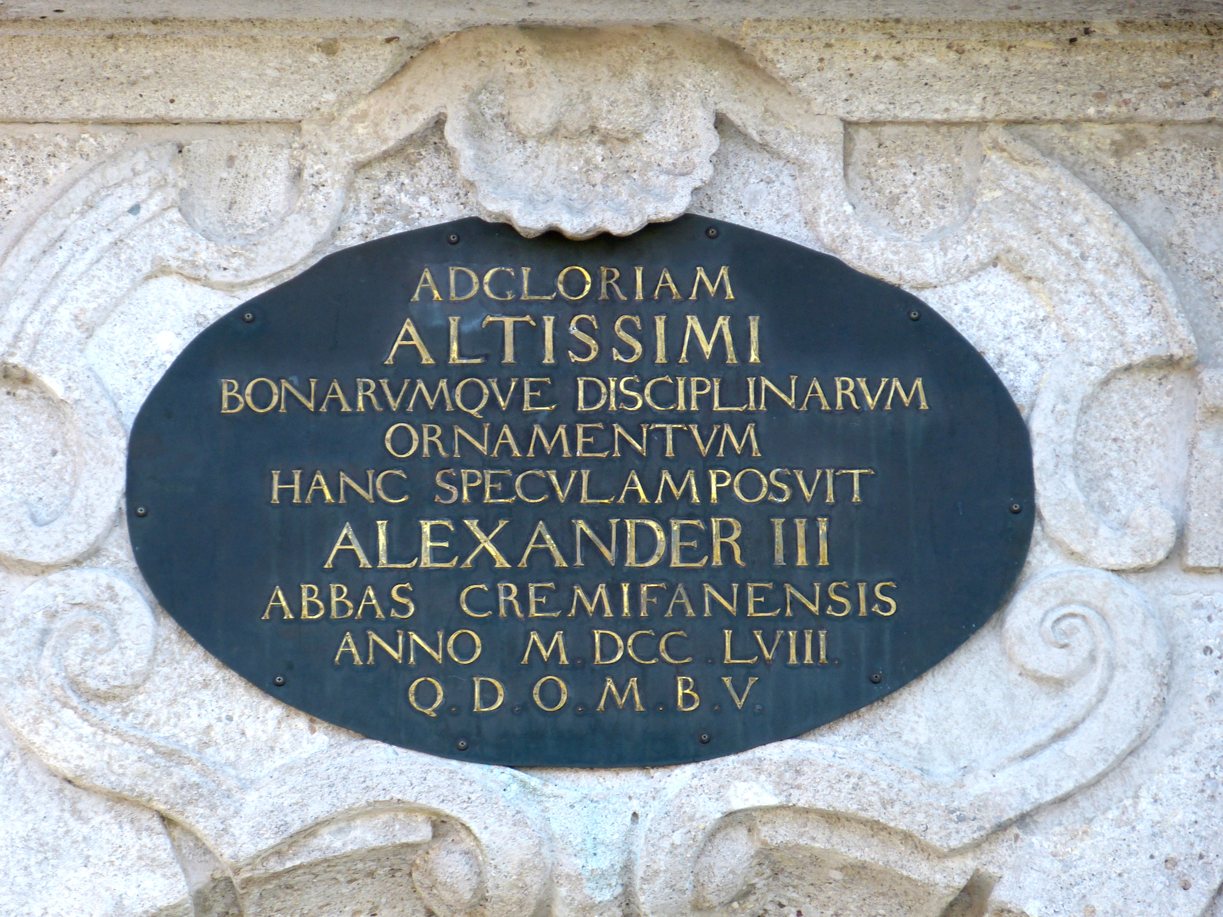 Kremsmünster abbey ( Upper Austria ). Observatory ( 1758 ) - Baroque portal: Latin inscription commemorating the building of the observatory by abbot Alexander III Fixlmillner.